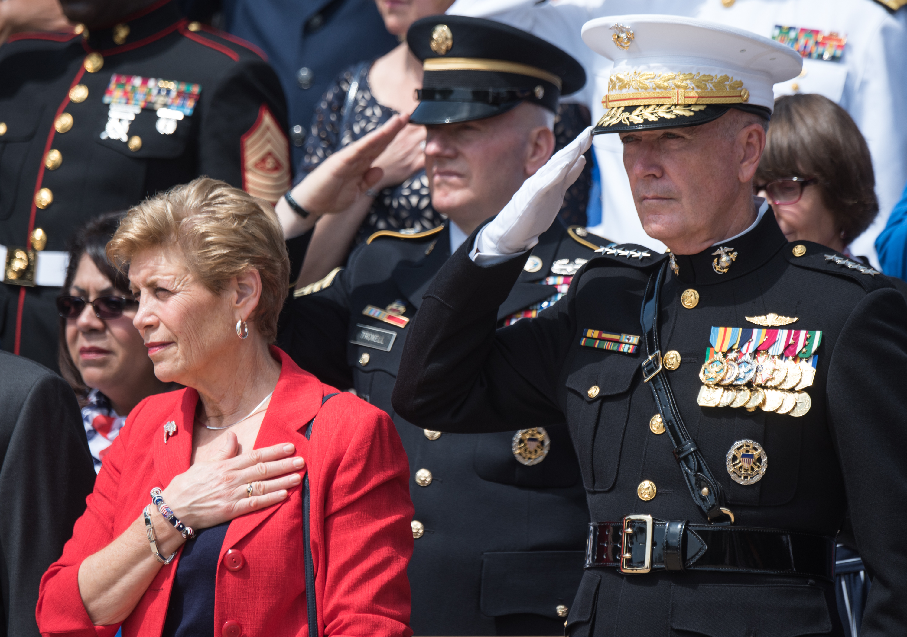 U.S. Marine Corps Gen. Joseph F. Dunford, Jr., chairman of the Joint Chiefs of Staff, and his wife, Mrs. Ellyn Dunford, render honors while attending the Presidential Armed Forces Honor Wreath-Laying Ceremony at the Tomb of the Unknown Soldier at Arlington National Cemetery, May 29, 2017. Senior leadership from around the DoD gathered to honor America’s fallen military service members. (DoD Photo by U.S. Army Sgt. James K. McCann)